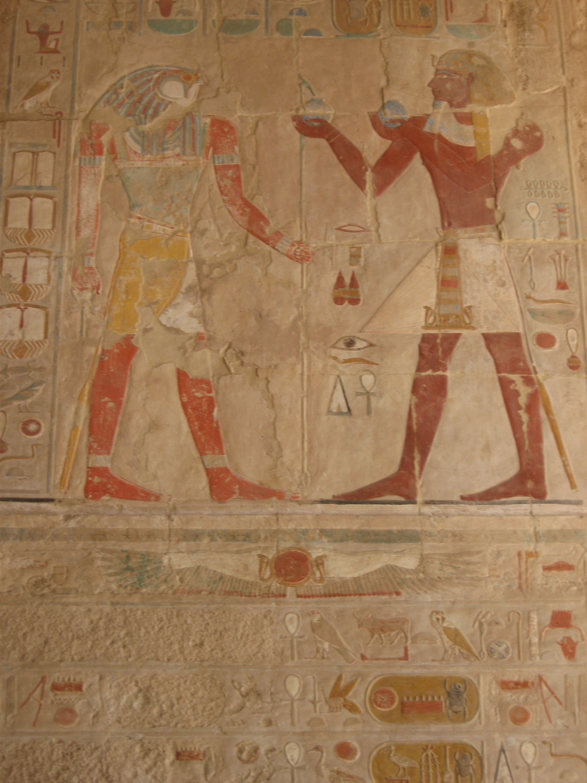 Temple of Hatshepsut